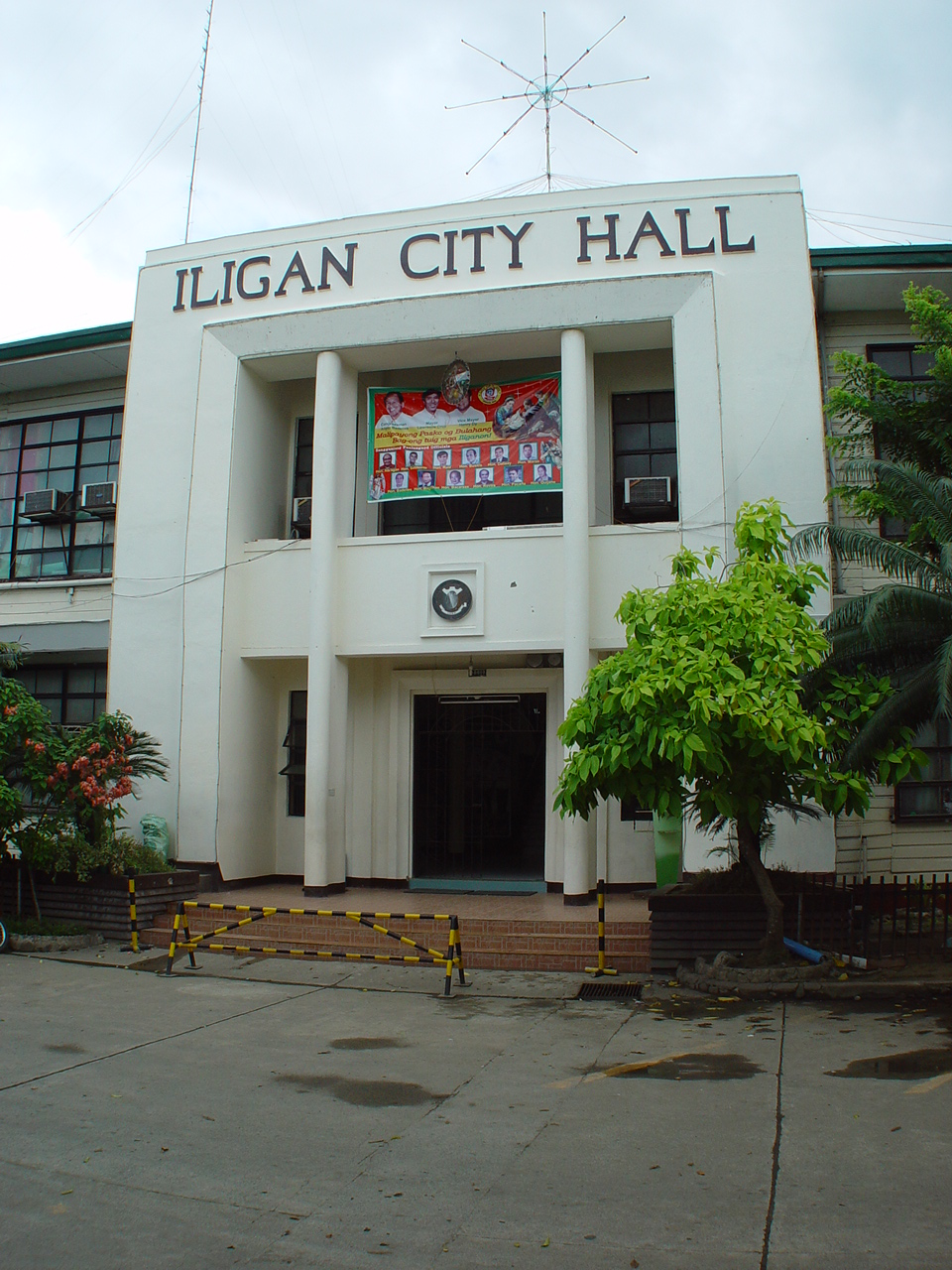 iligan city hall